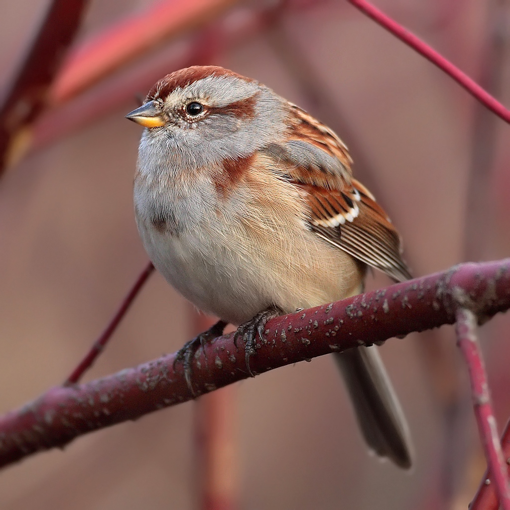 American Tree Sparrow (Spizella arborea), Whitby, Ontario, Canada.